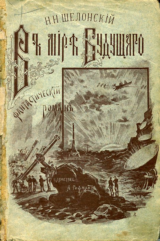 The cover of the first edition of Russian utopia by N. N. Shelonsky "V mire budushchego" ("In World of Future") (1892)